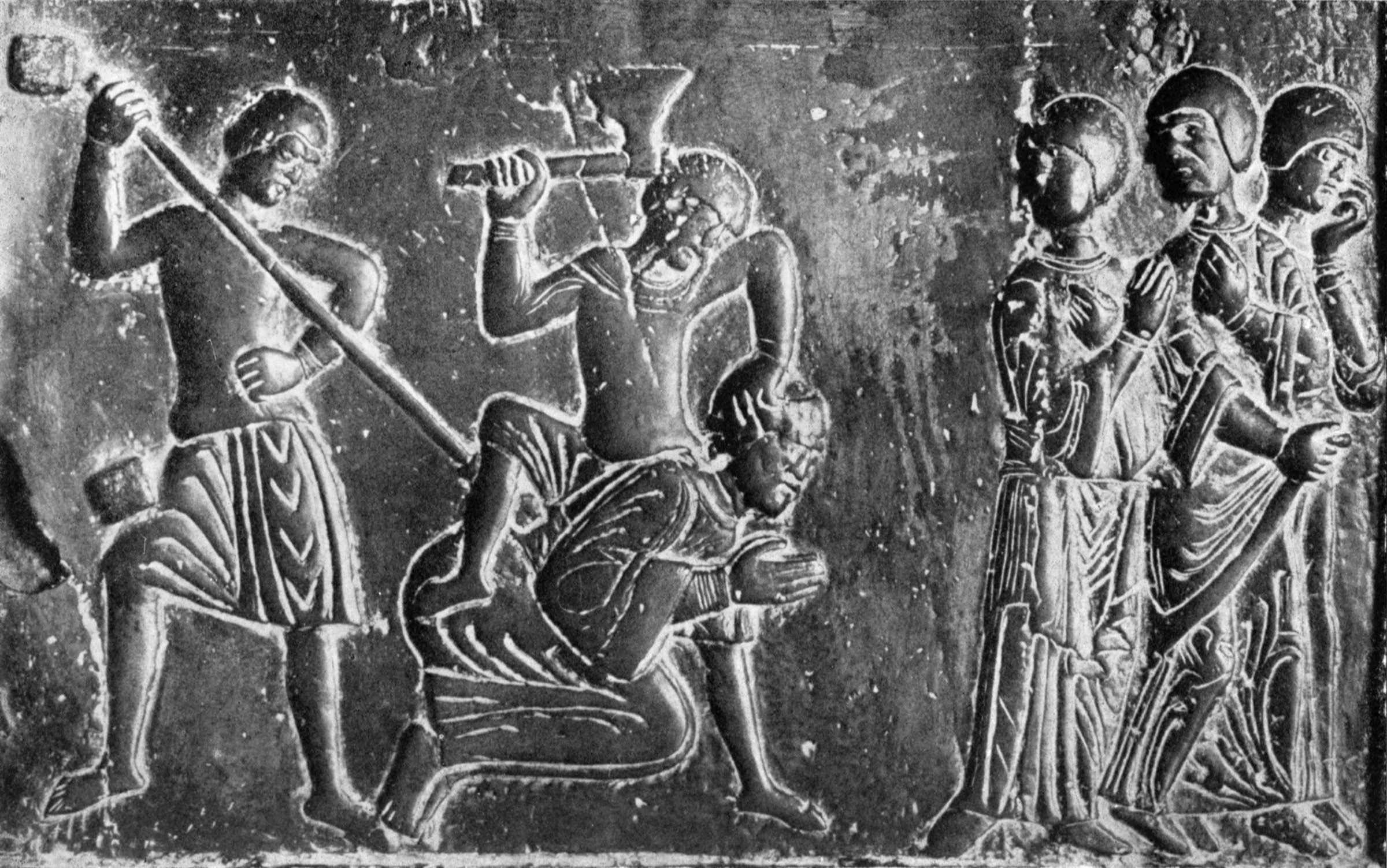 Gniezno Cathedral door detail